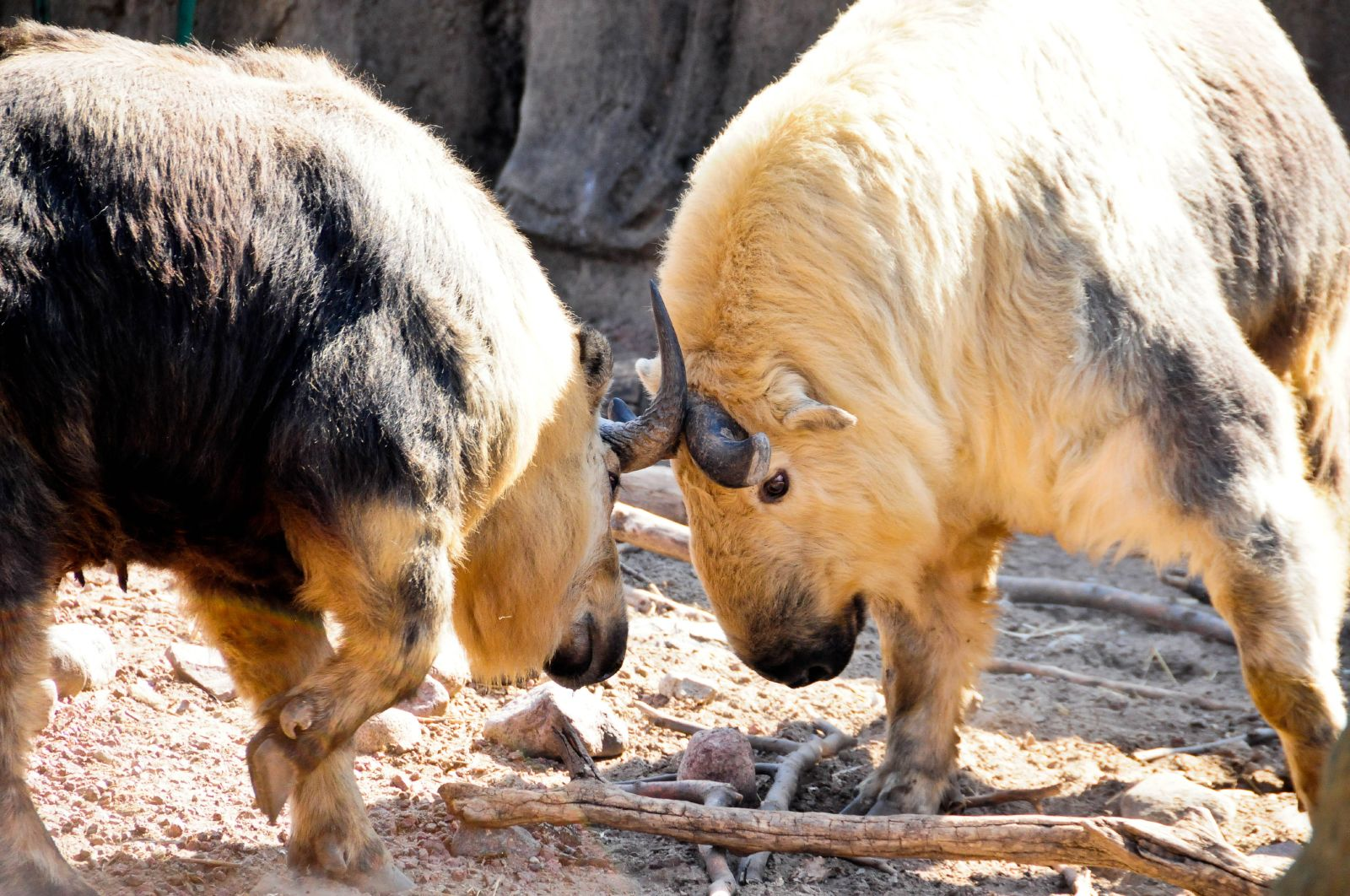 A pair of Sichuan Takin fight.